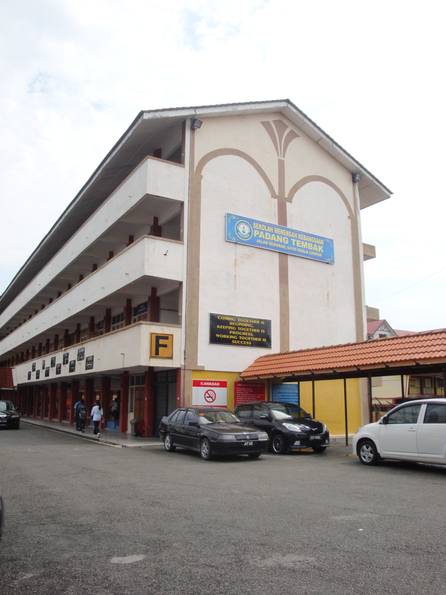 Sekolah Menengah Kebangsaan Padang Tembak